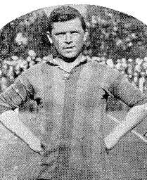 Harry Hayes